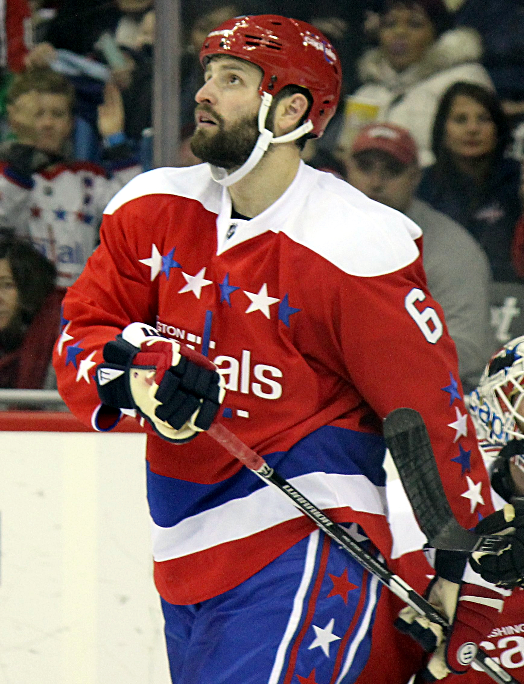 Washington Capitals defenseman Mike Weber during a game against the Pittsburgh Penguins, Thursday, April 28, 2016, at Verizon Center in Washington, D.C.